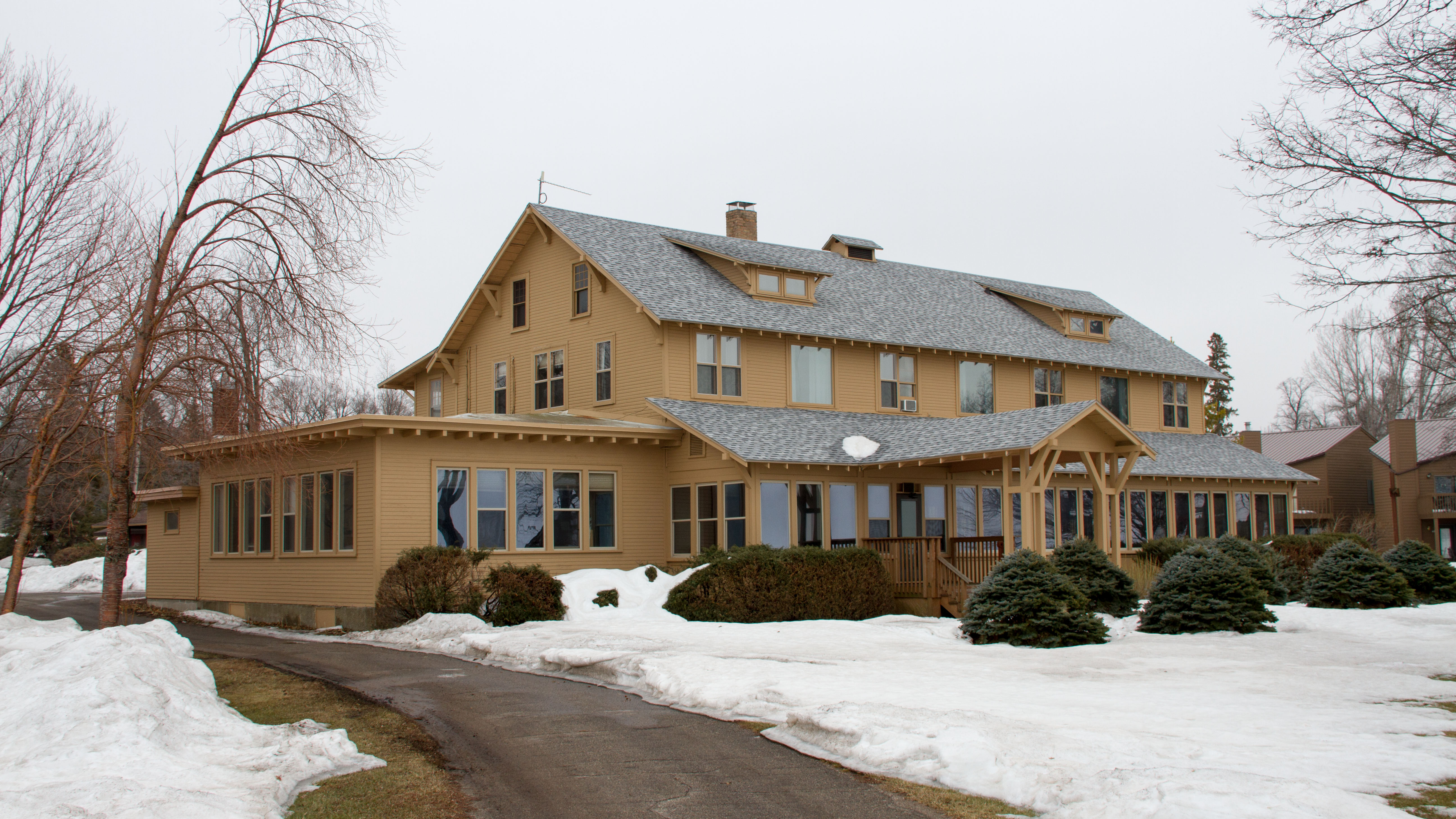 Main Lodge, Sunset Beach Hotel, Glenwood Township, Pope County, Minnesota, USA.